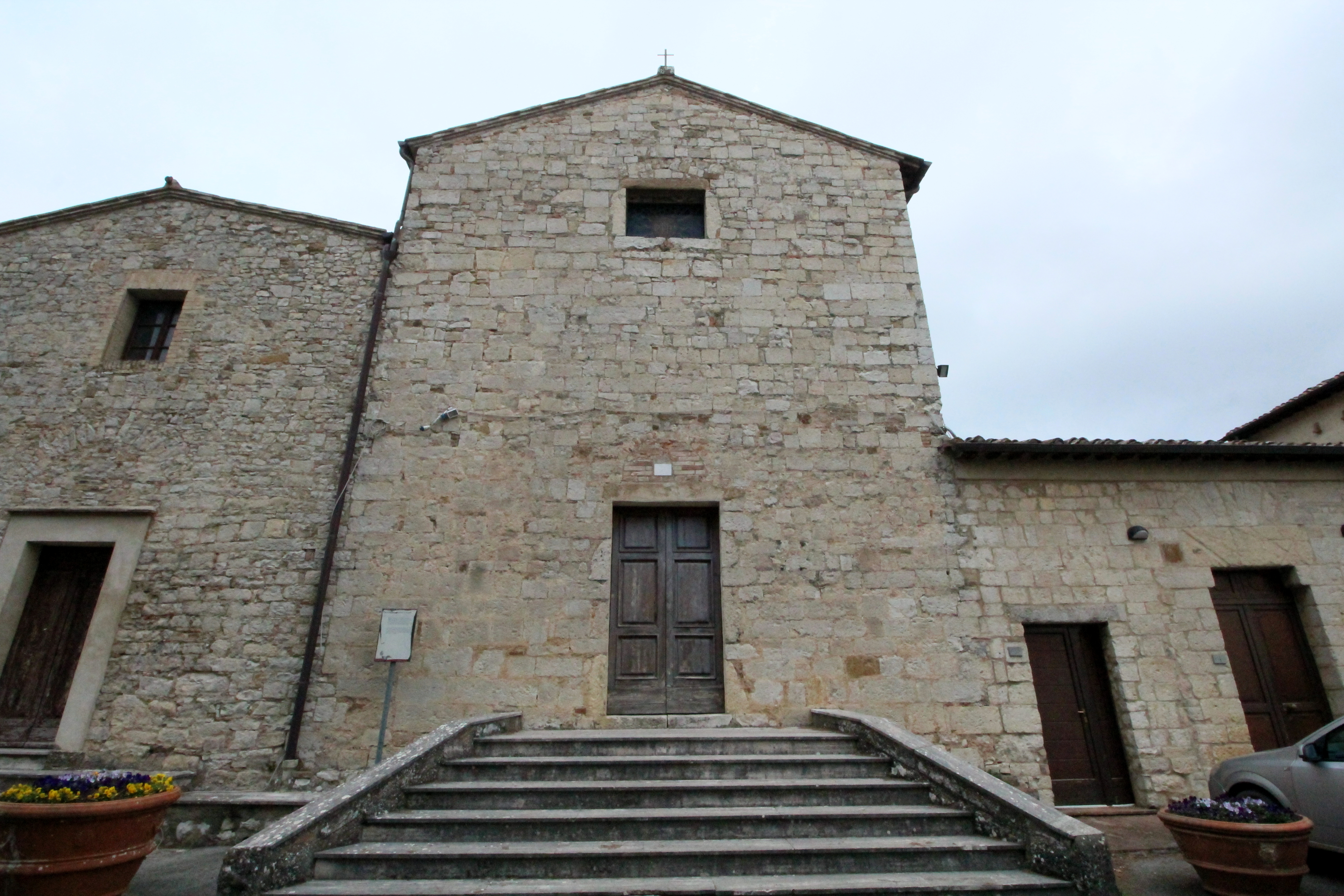 Church San Leonino in Conio, in the territory of Castellina in Chianti, Province of Siena, Tuscany, Italy